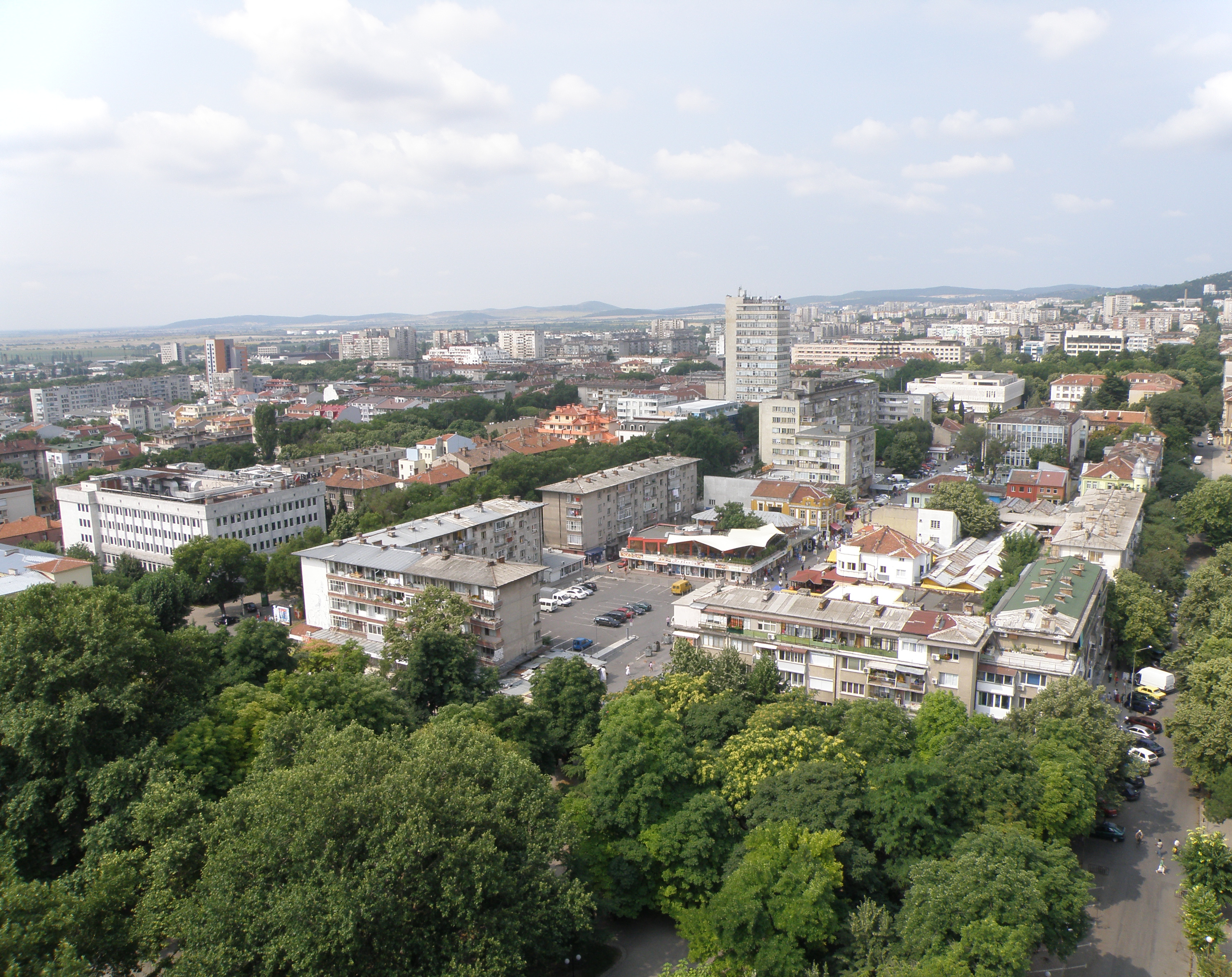 Stara Zagora - a city in Southcentral Bulgaria.